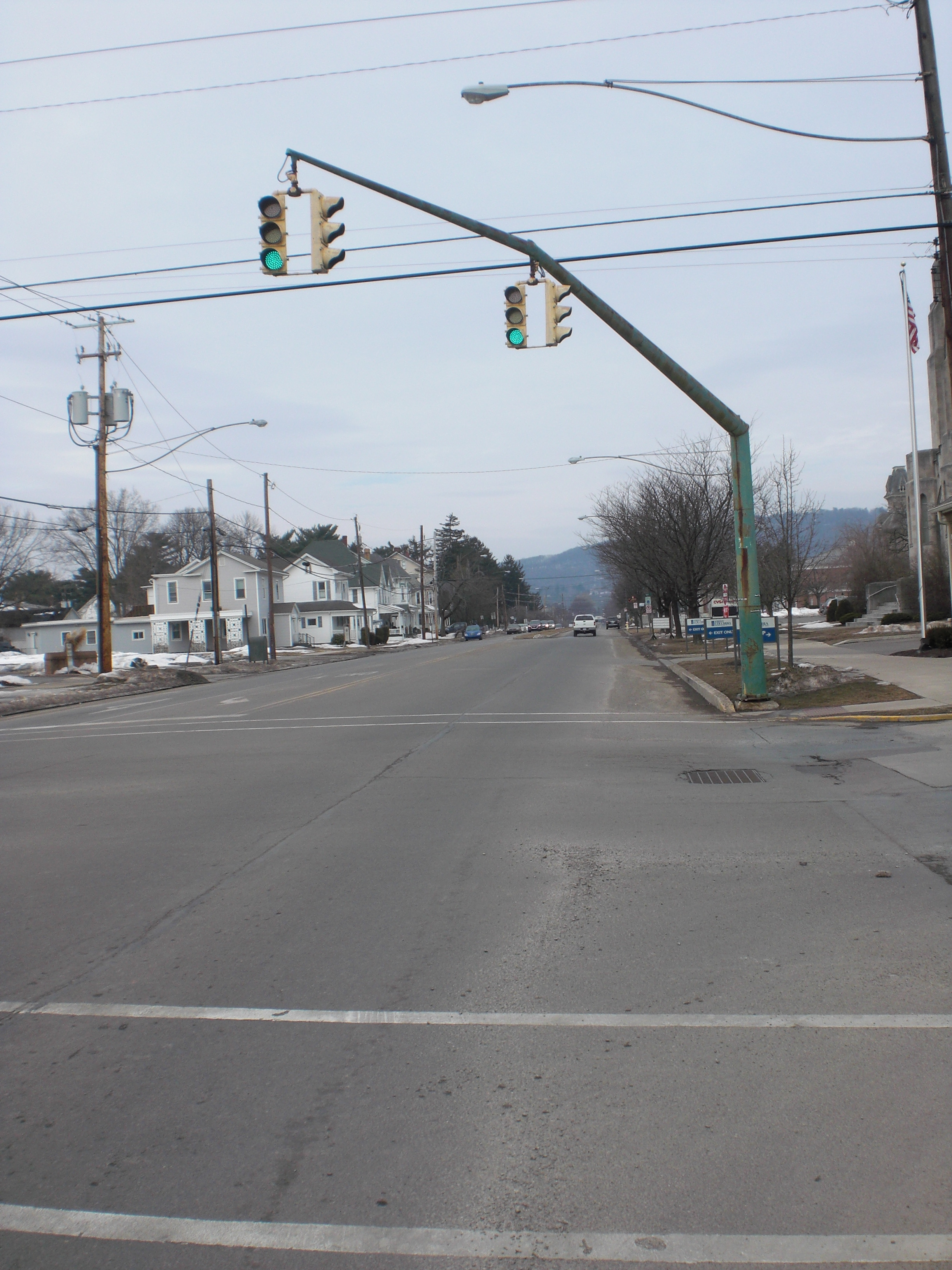 Market Street looking northwards in Berwick